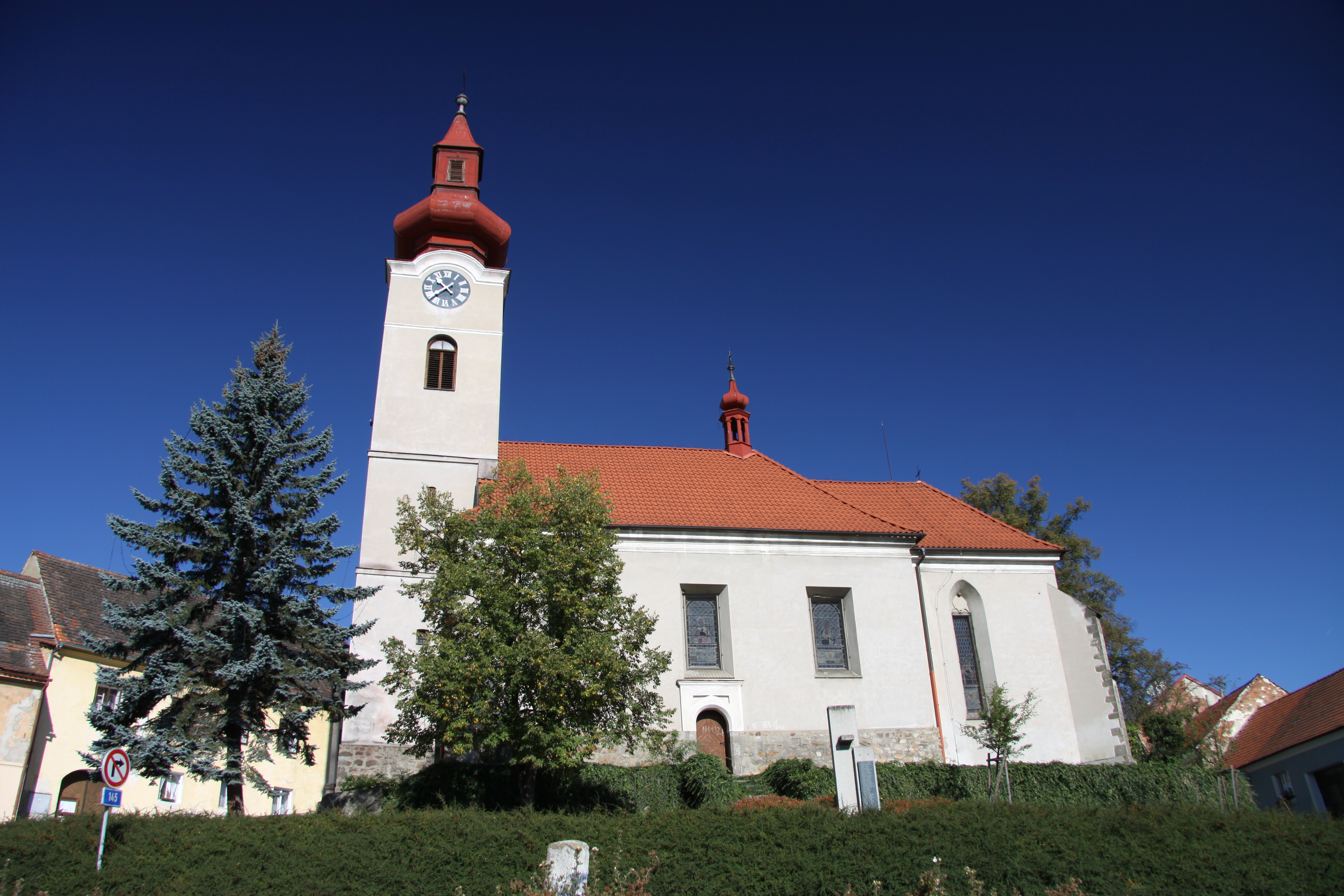 Husinec town in Prachatice District, Czech Republic. Church. - Google Maps - Google Earth